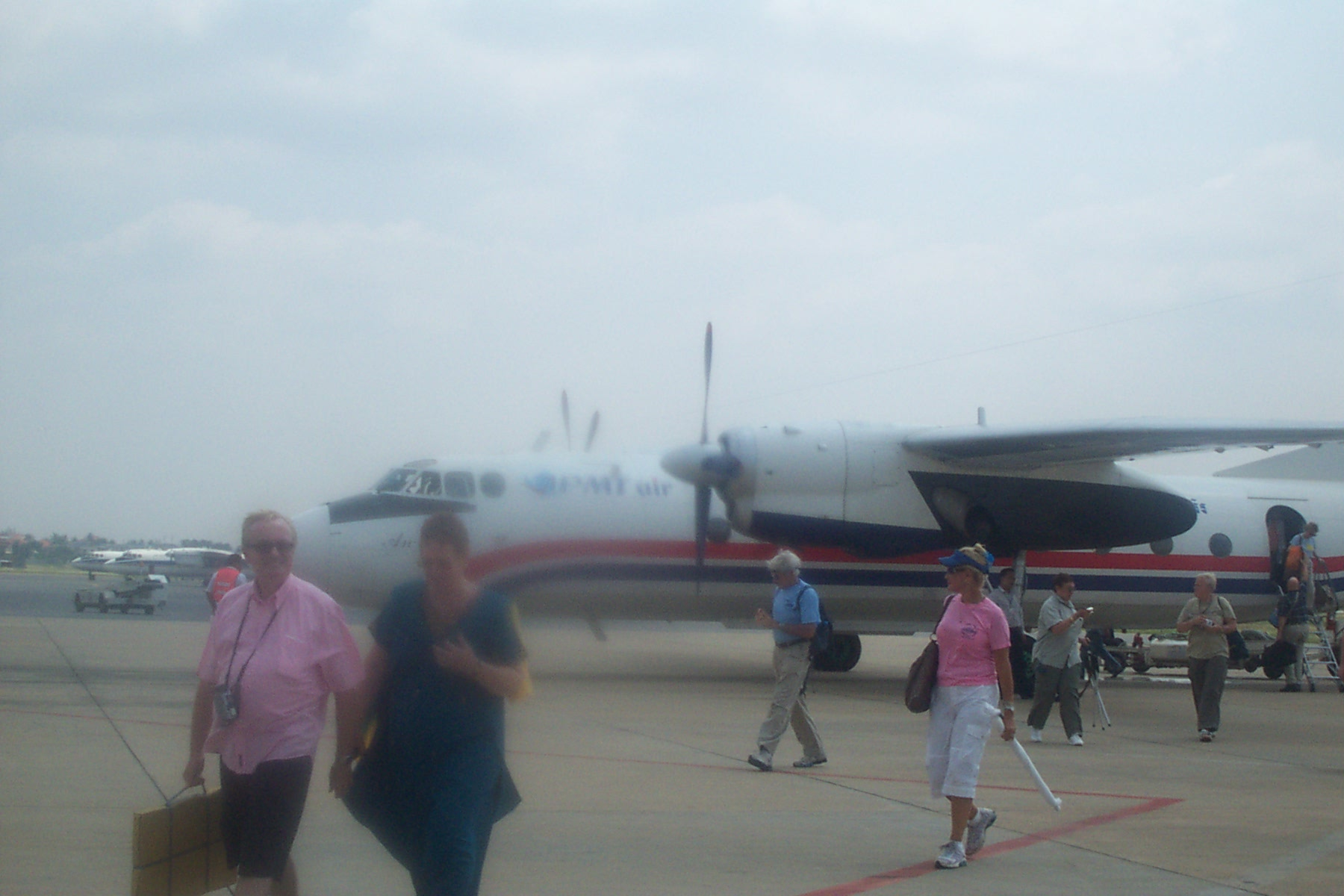 Passengers disembark from a PMTair Antonov An-24 at Phnom Penh International Airport.The plane - the humidity has caused the fuzziness